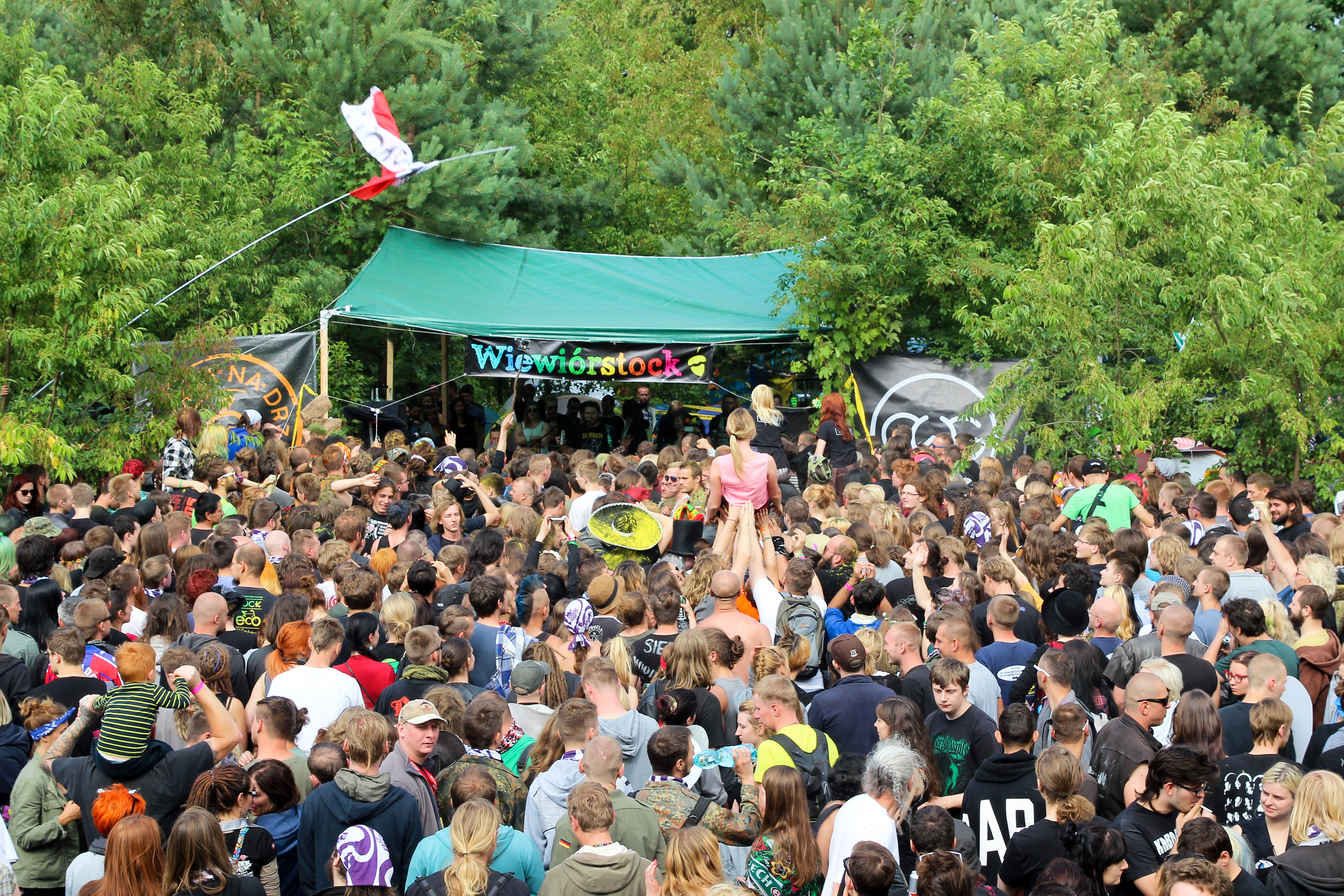 Przystanek Woodstock in 2015.